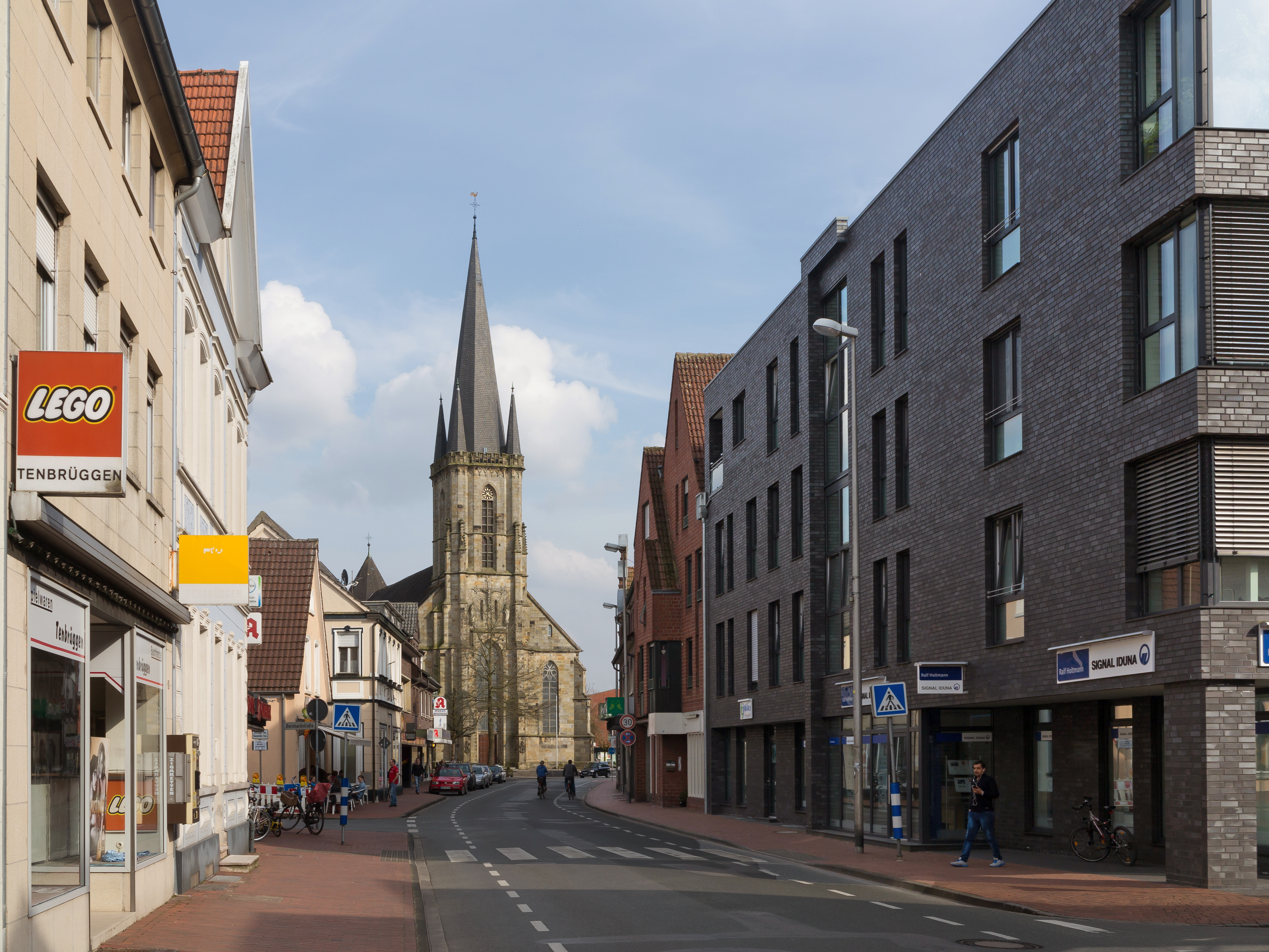 Epe, church: die katholische Kirche Sankt AgathaThis is a photograph of an architectural monument., no. 15